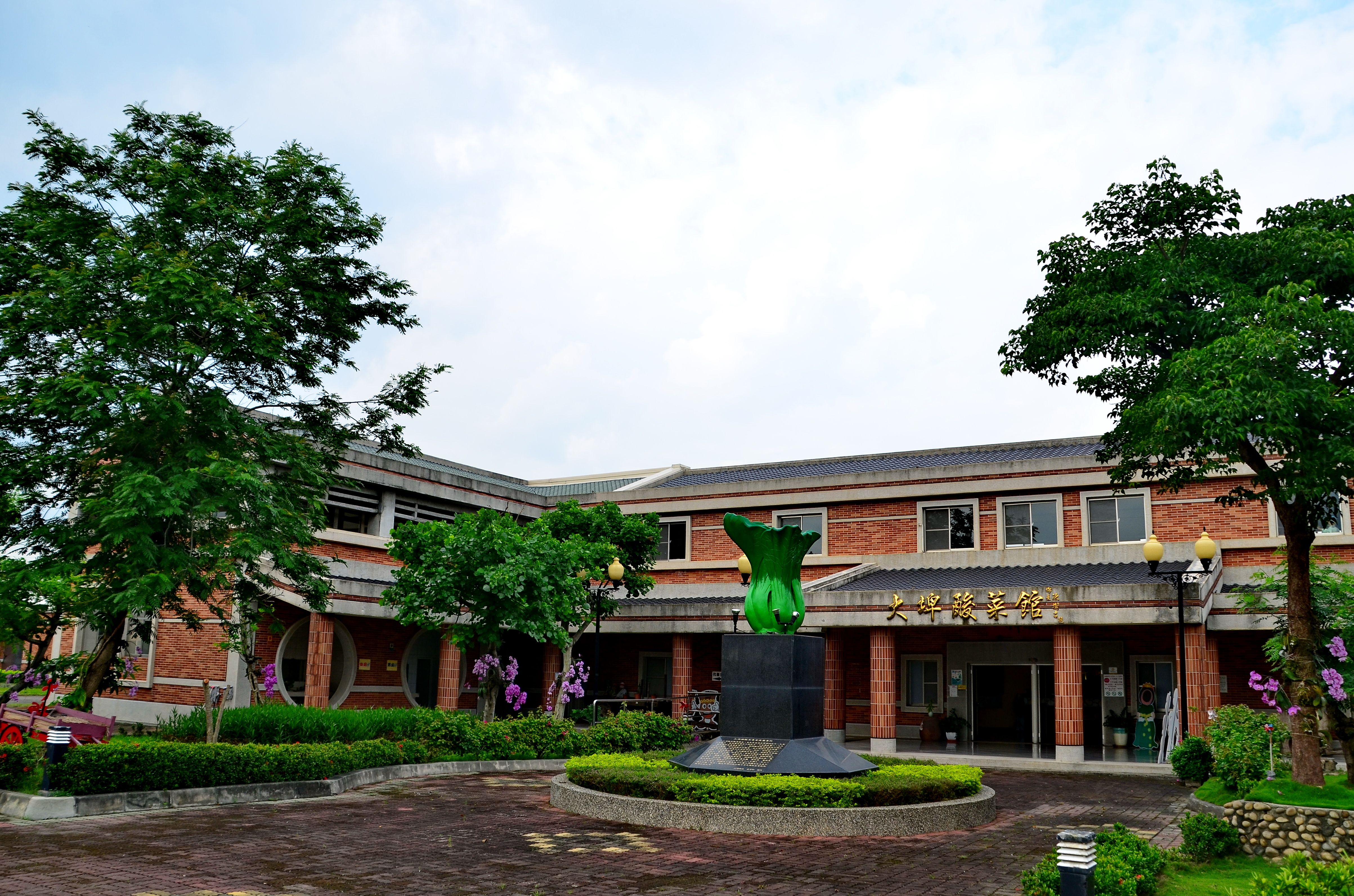 Dabei Town Pickled Mustard Green Museum, Yunlin County, Taiwan.